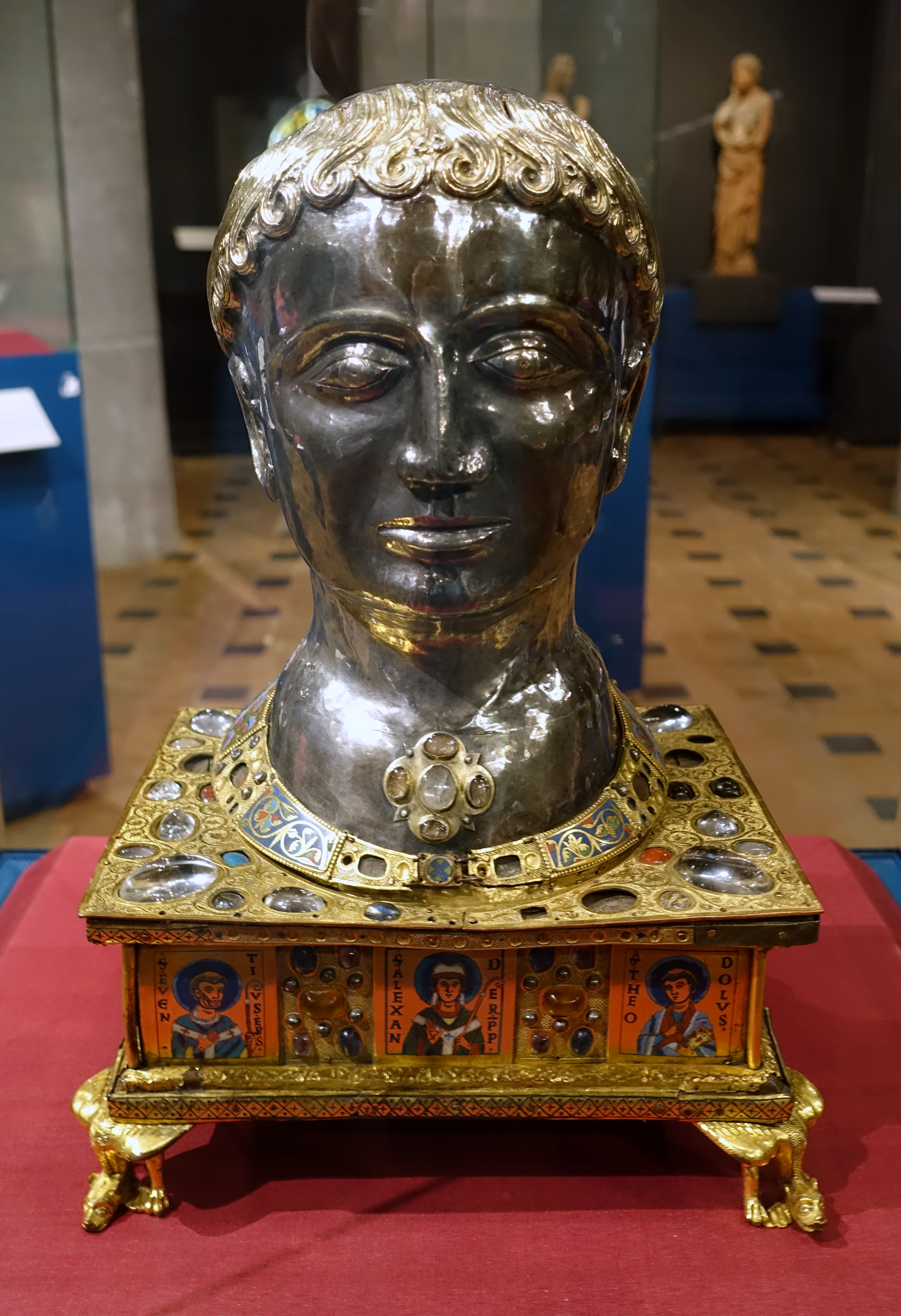 Exhibit in the Cinquantenaire Museum - Brussels, Belgium.